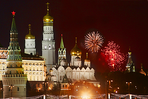 MOSCOW. Victory Day fireworks display.